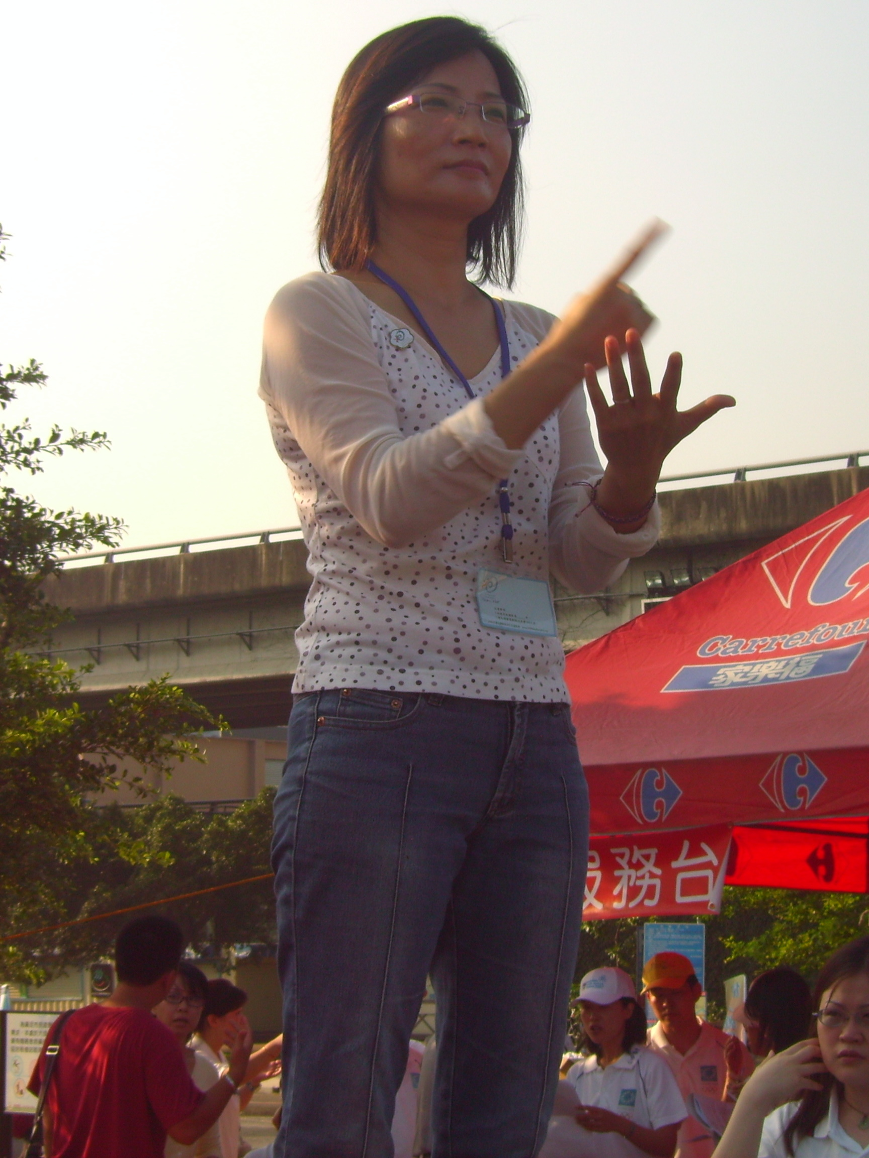 2007 Chinese Taipei Olympic Day Run in Taipei City: A sign language translator from Deaflympics 2009 Preparation Department.